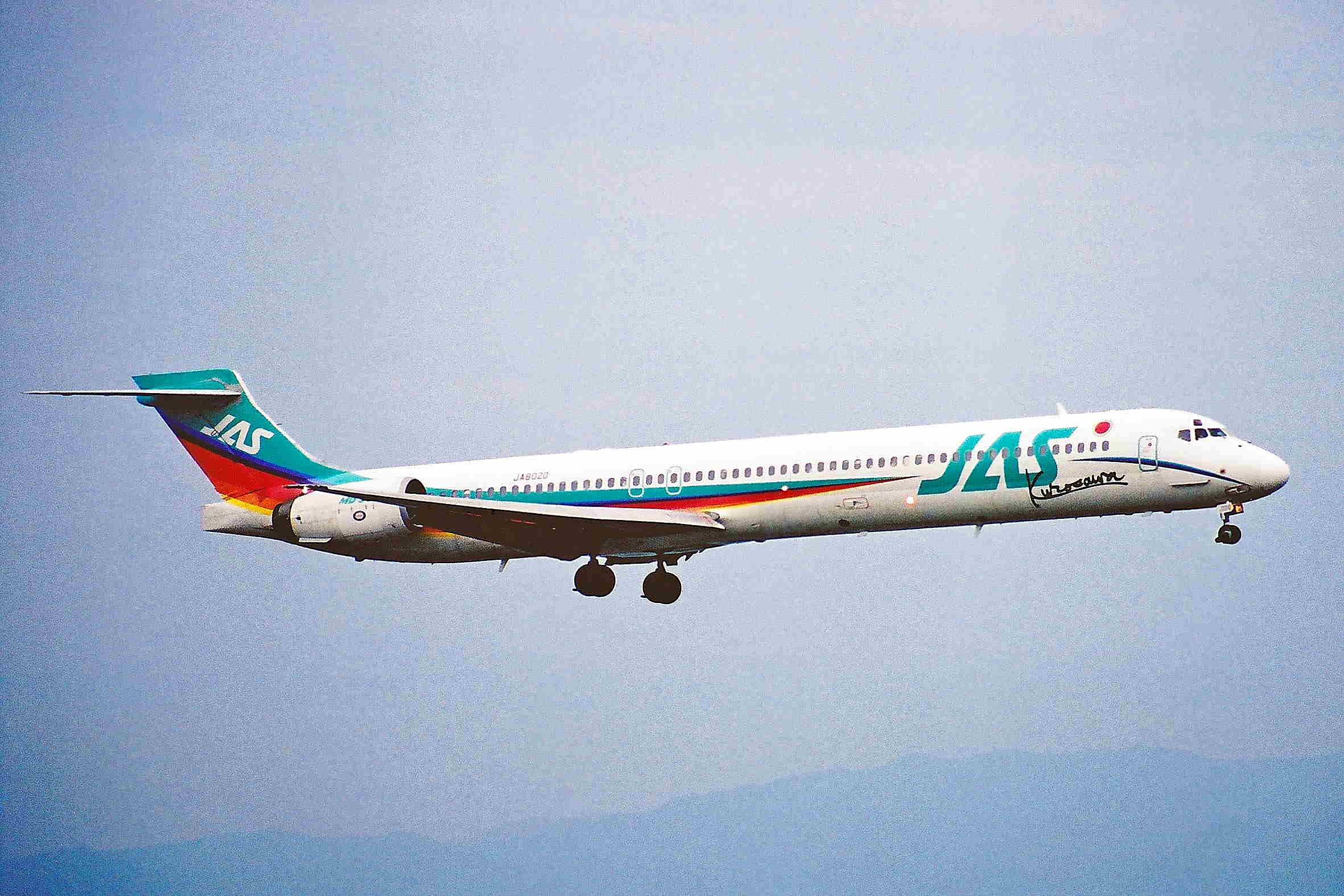 A design of Akira Kurosawa. To Delta Air Lines as N950DN.